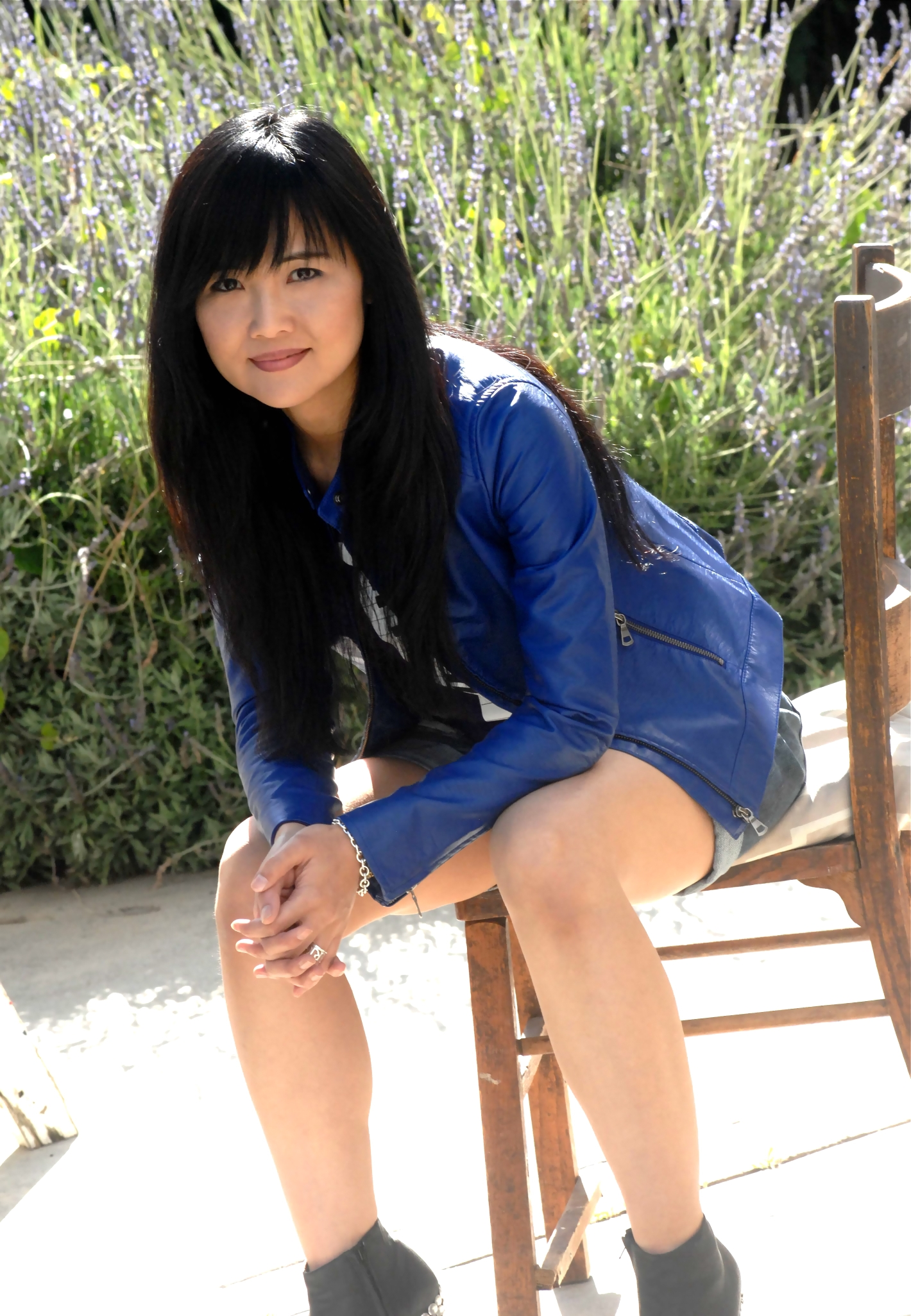 Mari Iijima in 2010